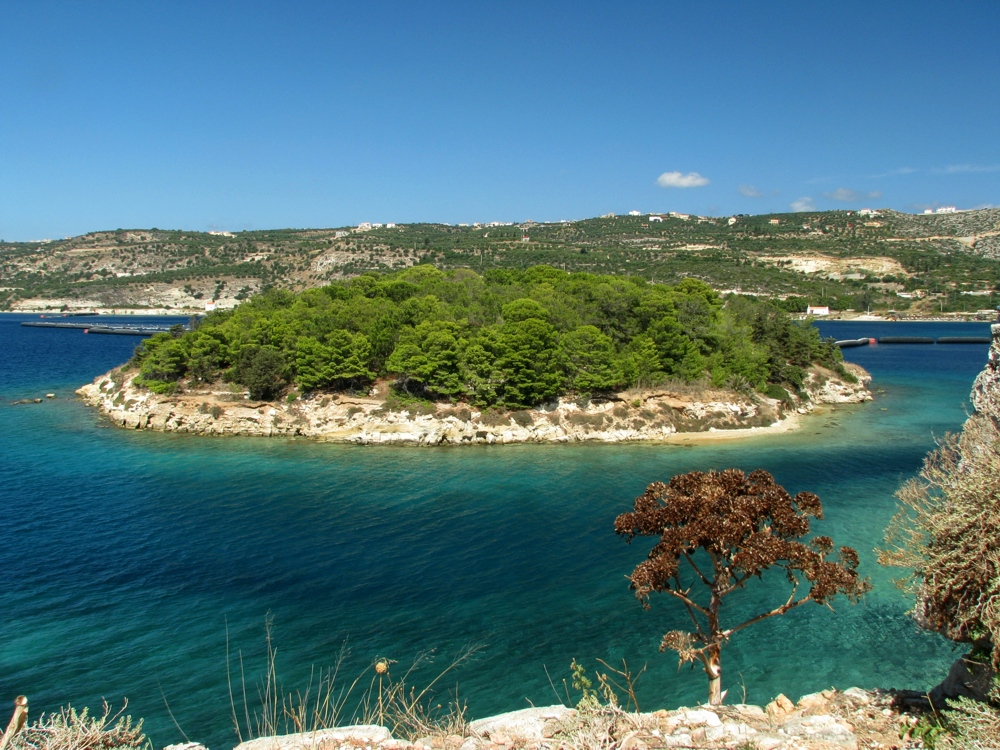 Souda Bay, Crete. This photo was taken from the ruined walls of the old Venetian fortress at Souda Island. Souda Bay is a bay and natural harbour on the northwest coast of the Greek island of Crete. The bay is about 15 km long and only two to four km wide, and a deep natural harbour. Souda is an important port for freight ships with a regular ferry service to Pireaus. It is also a strategic Hellenic Navy and NATO naval base. The strategic importance is enchanced by the Souda Air Base on Akrotiri Peninsula, serving Hellenic Air Force 115 Combat Wing. The latter may look like an information of no importance for the potential tourists, but believe me, even sleeping in Rethymno you will easily notice that Crete has an excellent fighter cover all night long.